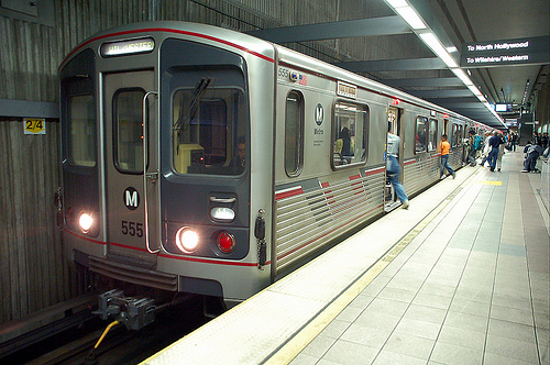 Purple Line subway train of the Los Angeles County Metropolitan Transit Authority, at Union Station, Los Angeles, California.